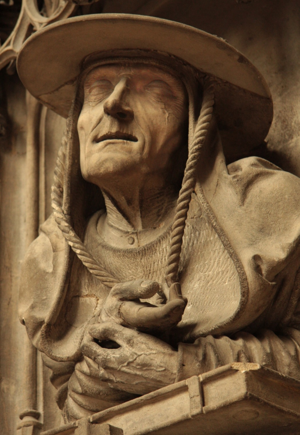 Detail of Pulpit in St. Stephen's Cathedral, Vienna: Relief of Saint Jerome